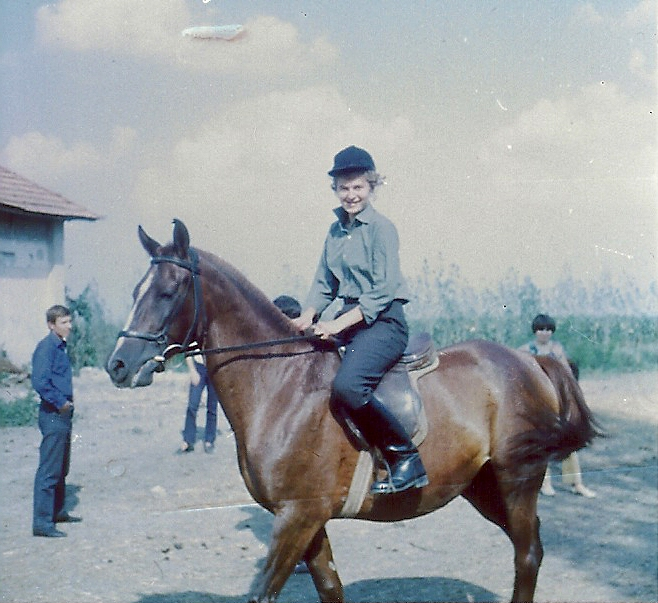 Picturesque view of Ujkigyos countryside.